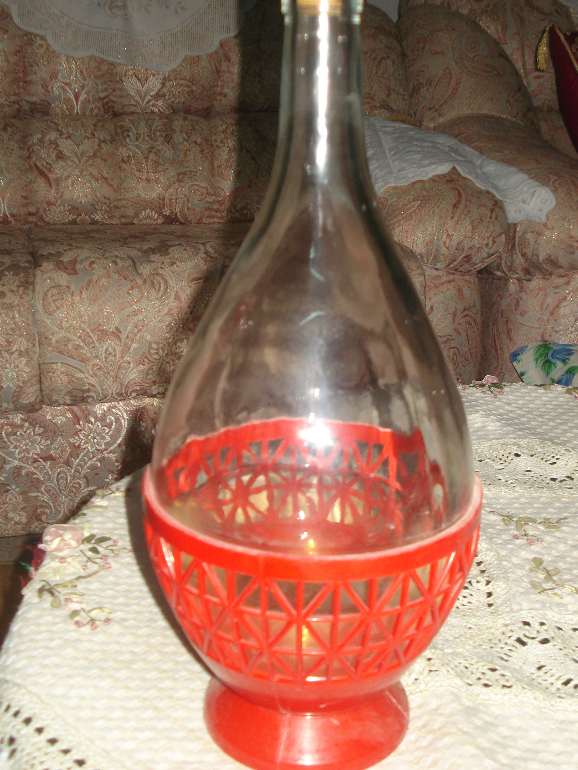 This is an image of food from Tunisia